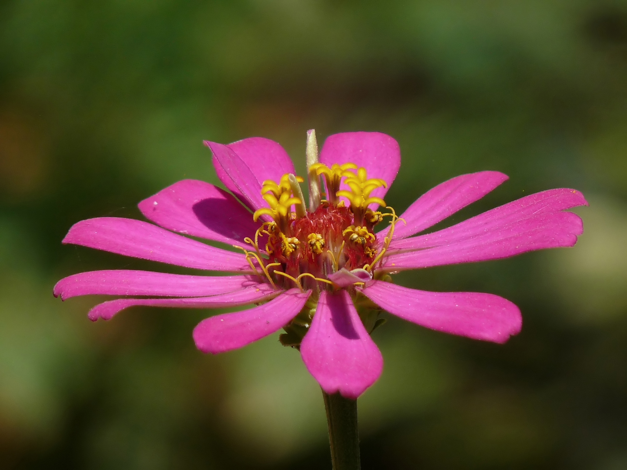 Zinnia elegans, Common zinnia, Youth-and-old-age, is an annual flowering plant of the genus Zinnia, is one of the best known zinnias. The uncultivated plant grows to about 30 in (76 cm) in height. It has solitary flower heads about 2 in (5 cm) across on stems resembling daisies. The purple florets surround black and yellow discs. The lanceolate leaves are opposite the flower heads. Wild Zinnia elegans is a desert plant found in Mexico. Garden varieties may escape and naturalise. The species was collected in 1789 at Tixtla, Guerrero, by Sessé and Mociño. It was formally described as Zinnia violacea by Cavanilles in 1791. Jacquin described it again in 1792 as Zinnia elegans, which was the name that Sessé and Moçiño had used in their manuscript of Plantae Novae Hispaniae, which was not published until 1890.